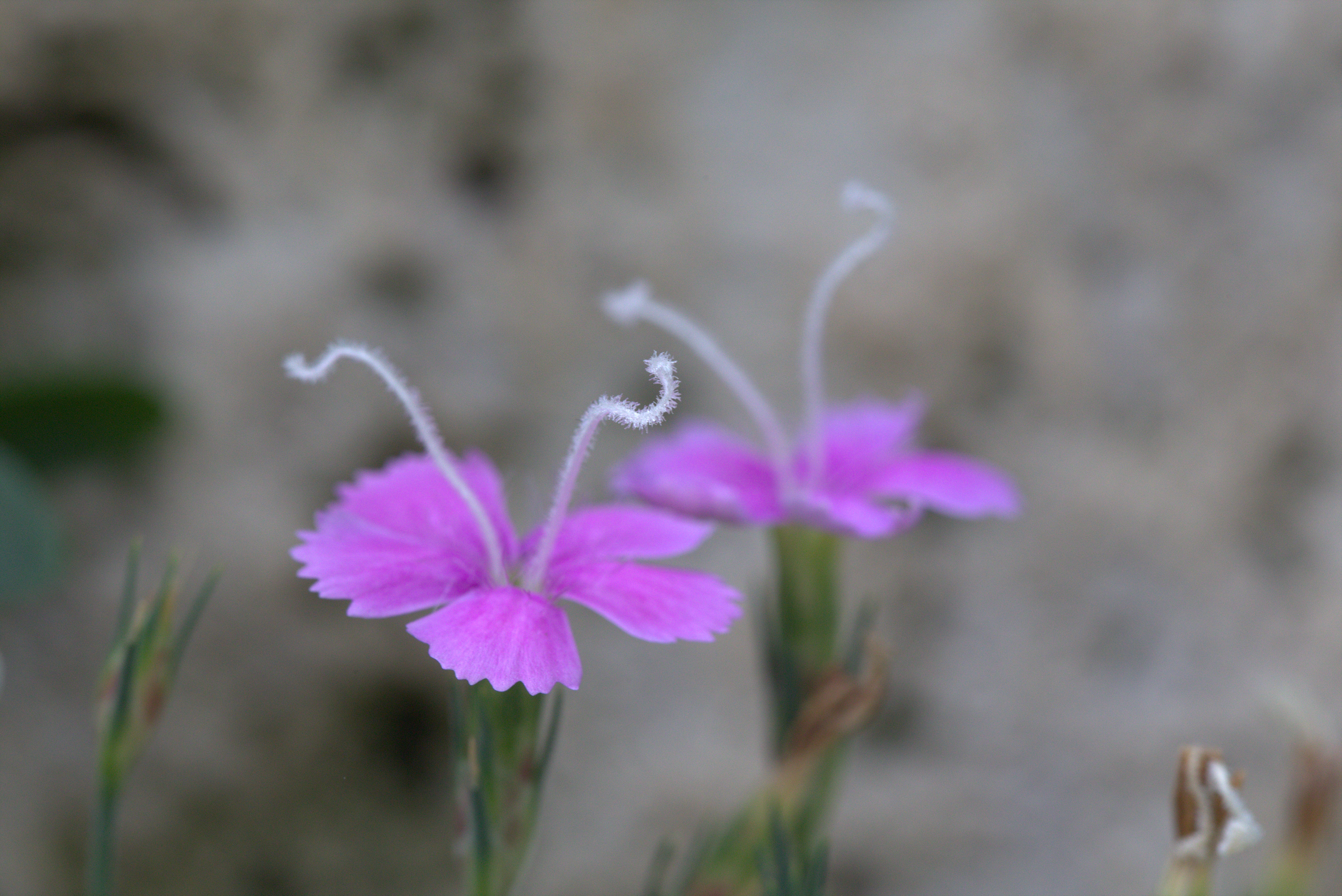 Dianthus engleri in Gothenburg Botanical Garden 2015. Plant id: 2010-194 s Z.